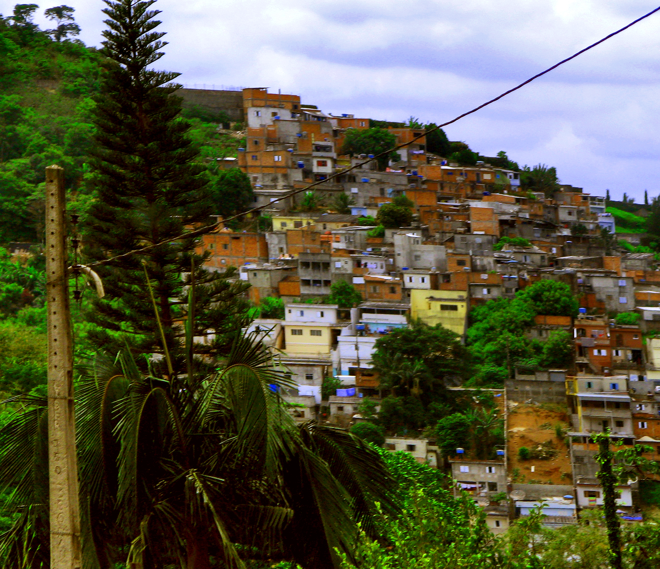 peripheral urban settlement in São Paulo City, Brazil. The area is next to Cantareira Mountain Range